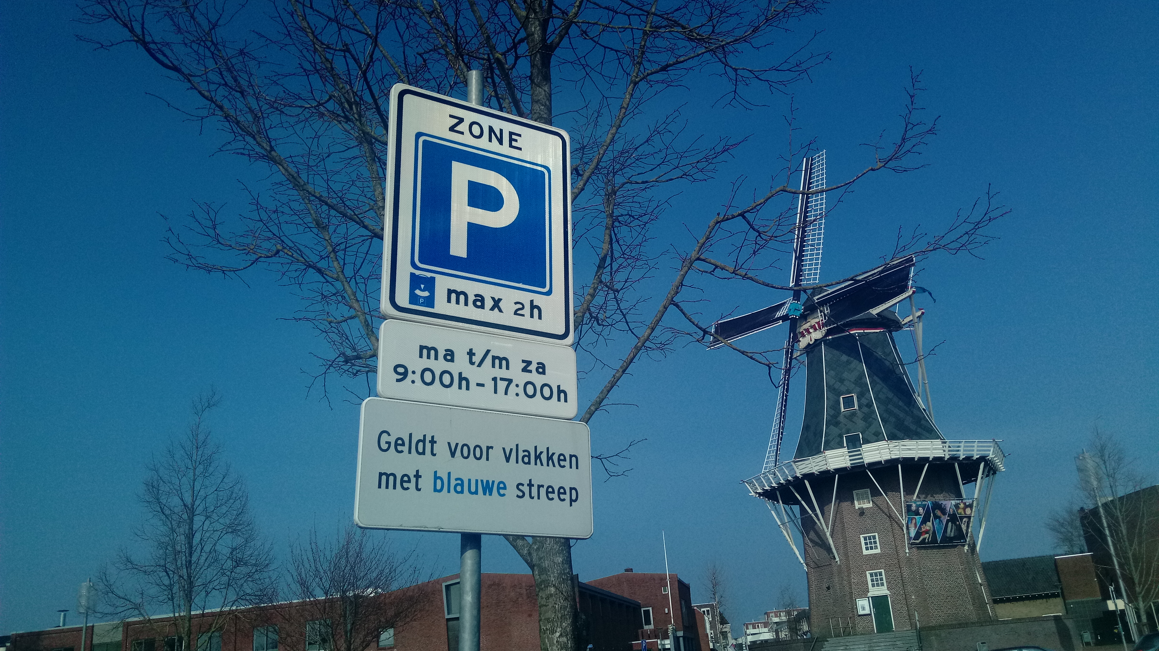 A local parking sign indicating that people should use a parking disc if they wish to park their automobiles within parking spaces with blue lines in the Groninger city of Delfzijl.